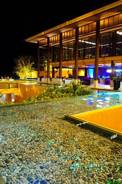 Baba Poolclub